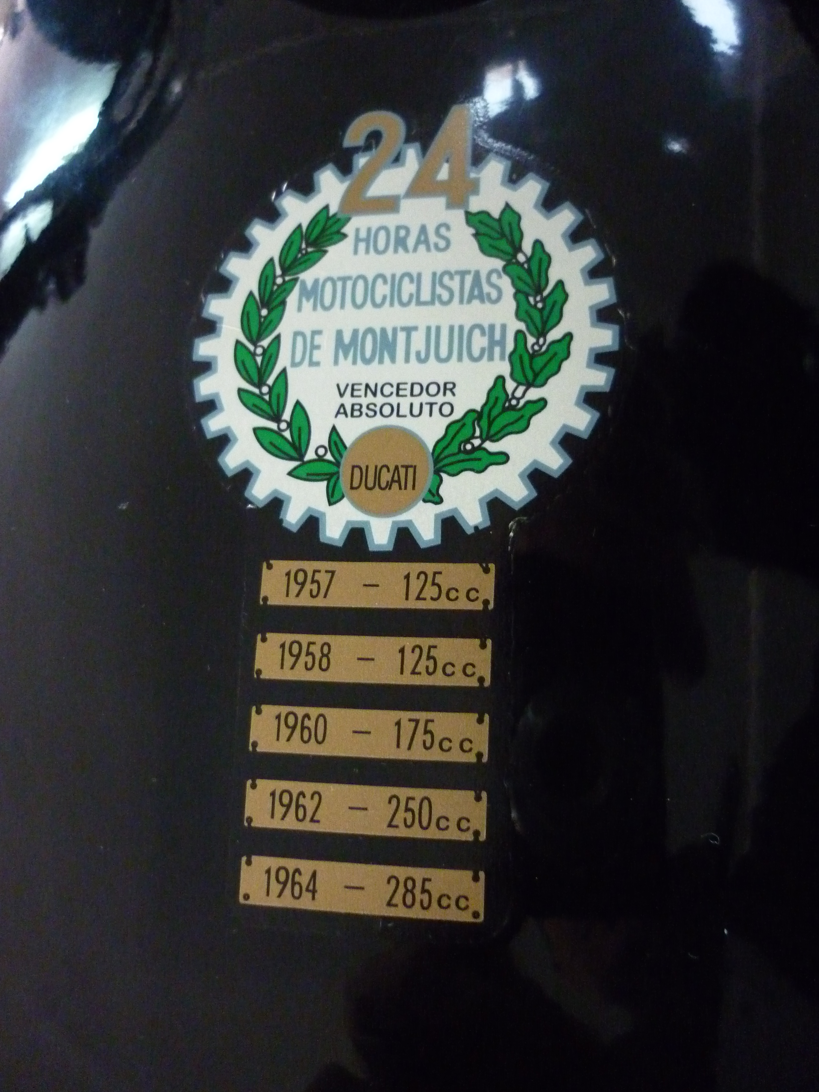 Ducati palmares in the "24 Hores de Montjuïc" (Barcelona, Catalonia) on a Deluxe 250cc 1967.Isern Motorcycle Museum, Mollet del Vallès (Catalonia).